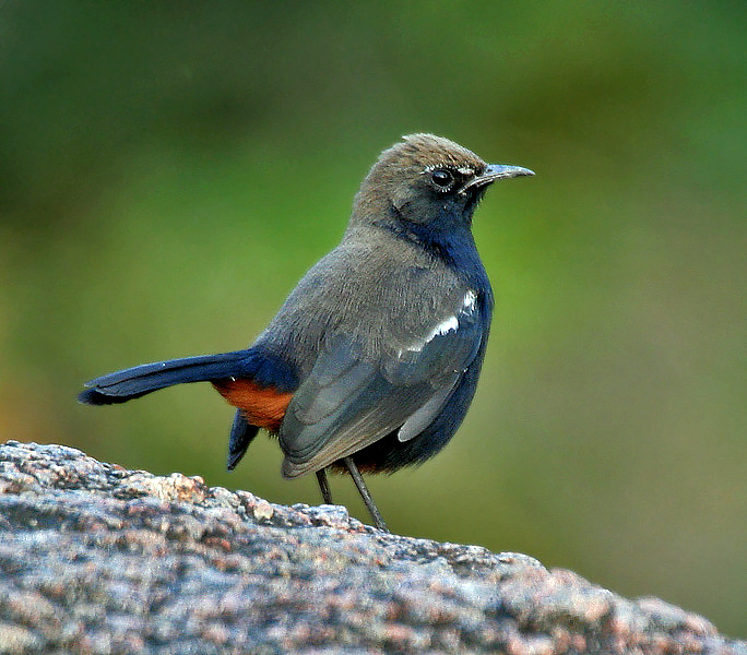 Indian Robin Saxicoloides fulicata in Kawal Wildlife Sanctuary, Andhra Pradesh, India.